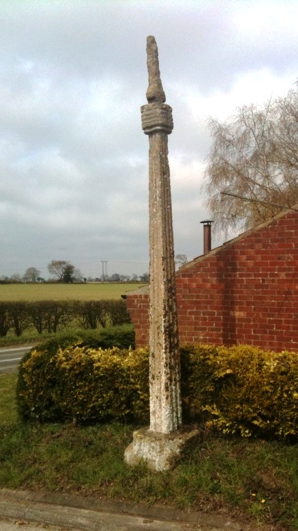 The remains of a mediaeval cross associated with the 1381 Battle of North Walsham.